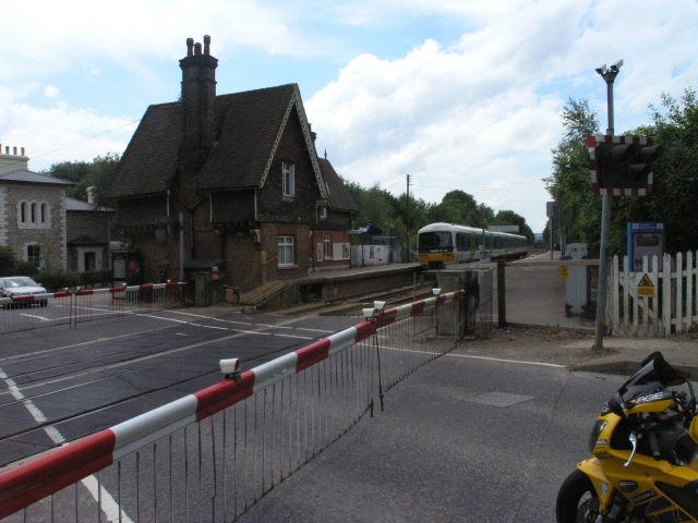 Betchworth Station. Betchworth station, with level crossing closed.